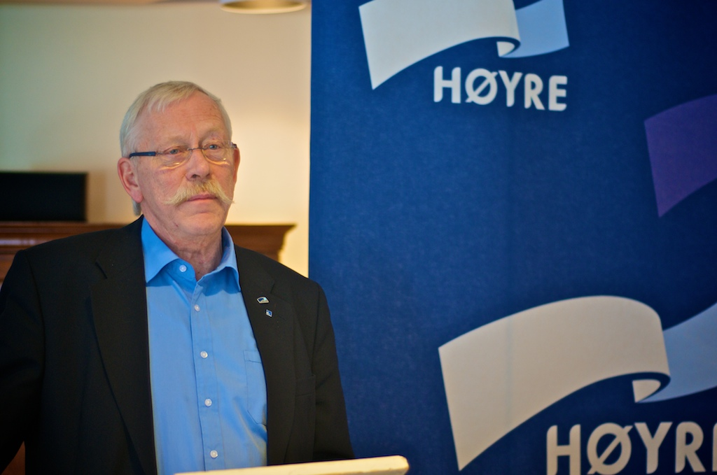 Lars Myraune, mayor of Frosta, leader of the Conservative Party of Nord-Trøndelag, and the Conservative Party's no. 1 candidate for the Storting election of 2009.